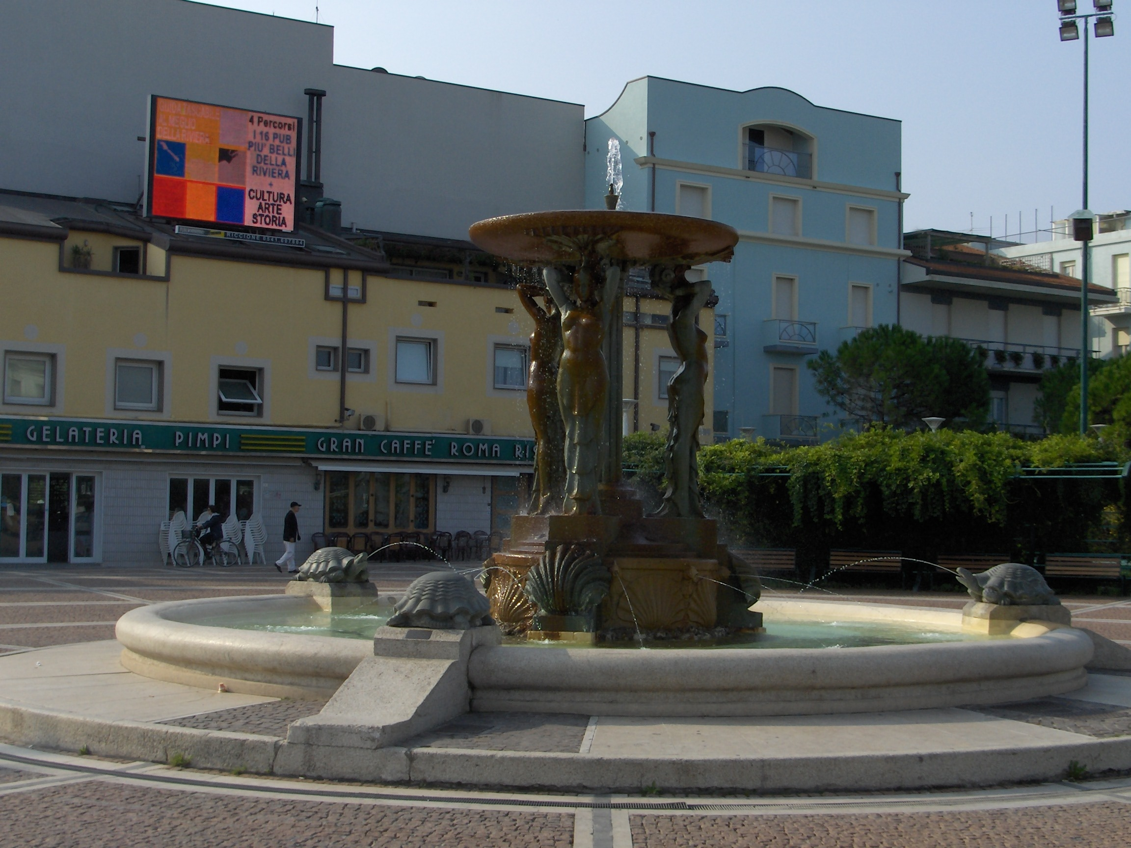 It shows the Fonatana delle Sirene a fountain in the town of Cattolica (near Rimini). Source: photo uploaded by User:RicciSpeziari. Photographer: Basilio Speziari